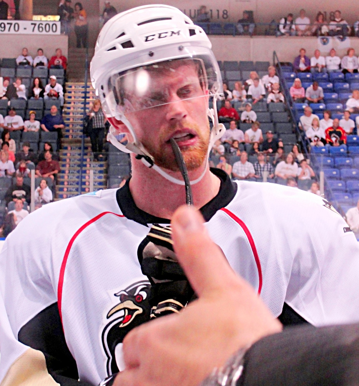 Wilkes-Barre/Scranton Penguins defenseman Philip Samuelsson during a AHL Calder Cup Playoffs second round game against the St. John's IceCaps, May 5, 2012 at Mohegan Sun Arena at Casey Plaze in Wilkes-Barre, PA.